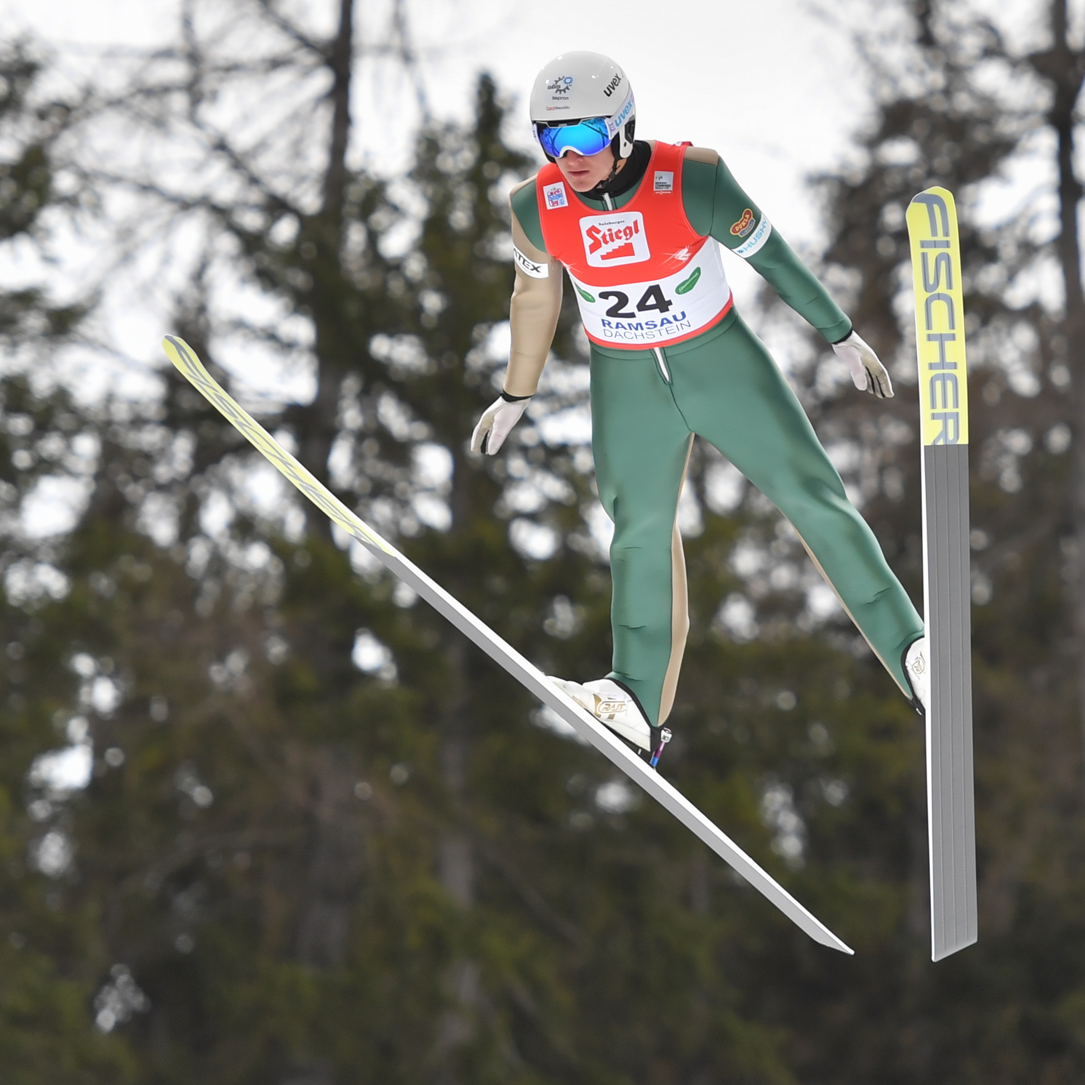 FIS World Cup Nordic Combined, Ramsau/Austria, 2016-12-16 to 2016-12-18.